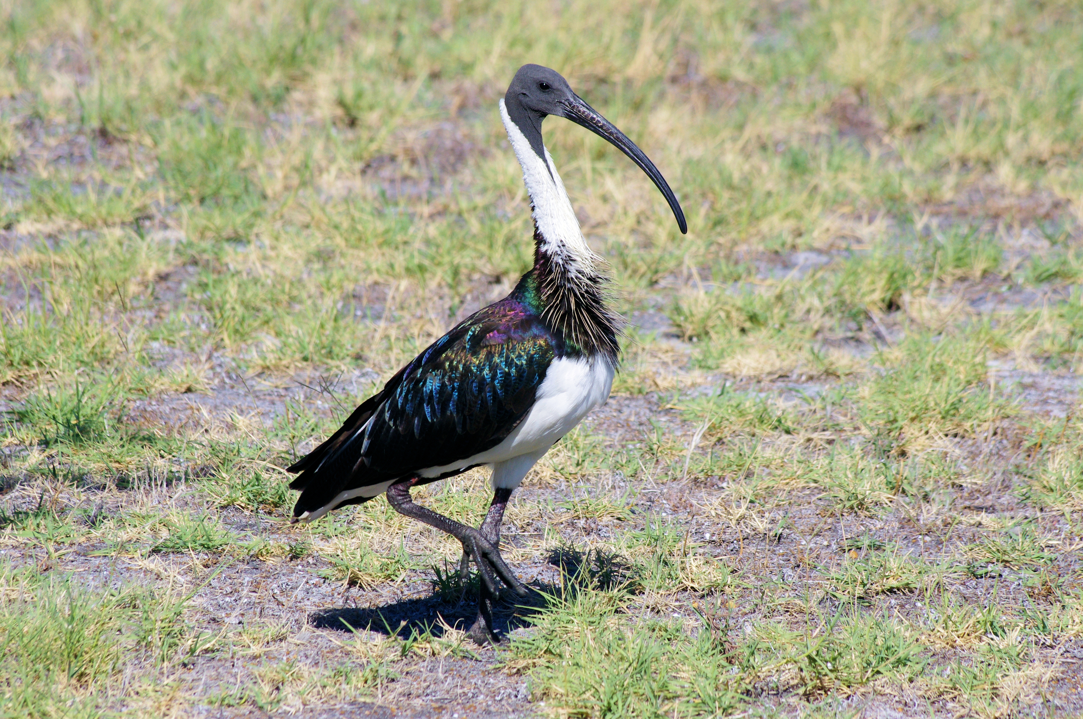 An adult Straw-necked Ibis near Bunbury, Western Australia, Australia.